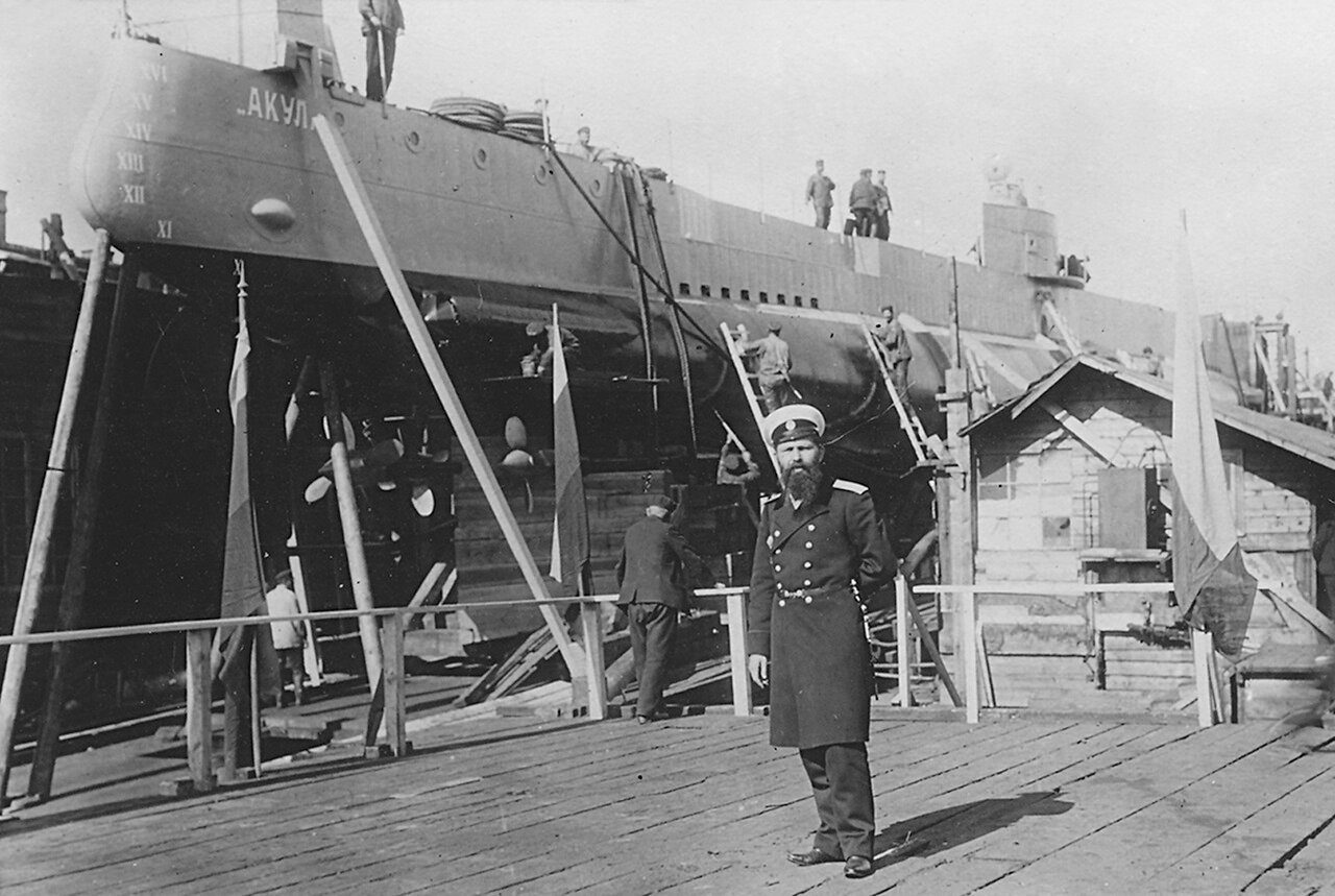 I.G. Bubnov near to submarine Akula on the dock of Baltick factory.